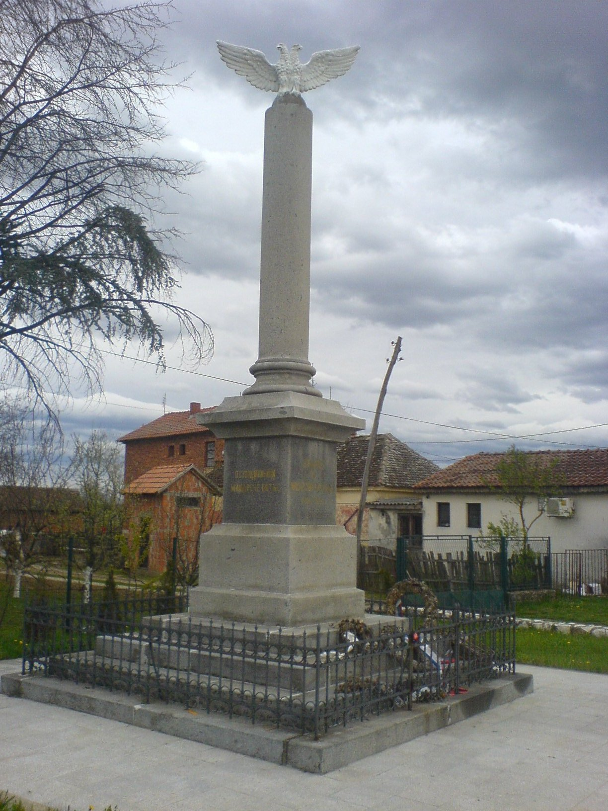 Monument in honor of Serbian victory in battle of Mišar.